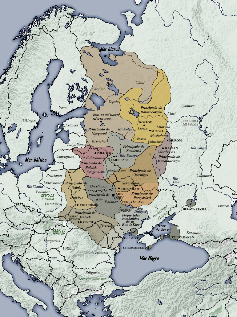 Principalities of the later Kievan Rus (after the death of Yaroslav I in 1054). (the background map is a modern map of Europe showing current national boundaries (Labels in Spanish)